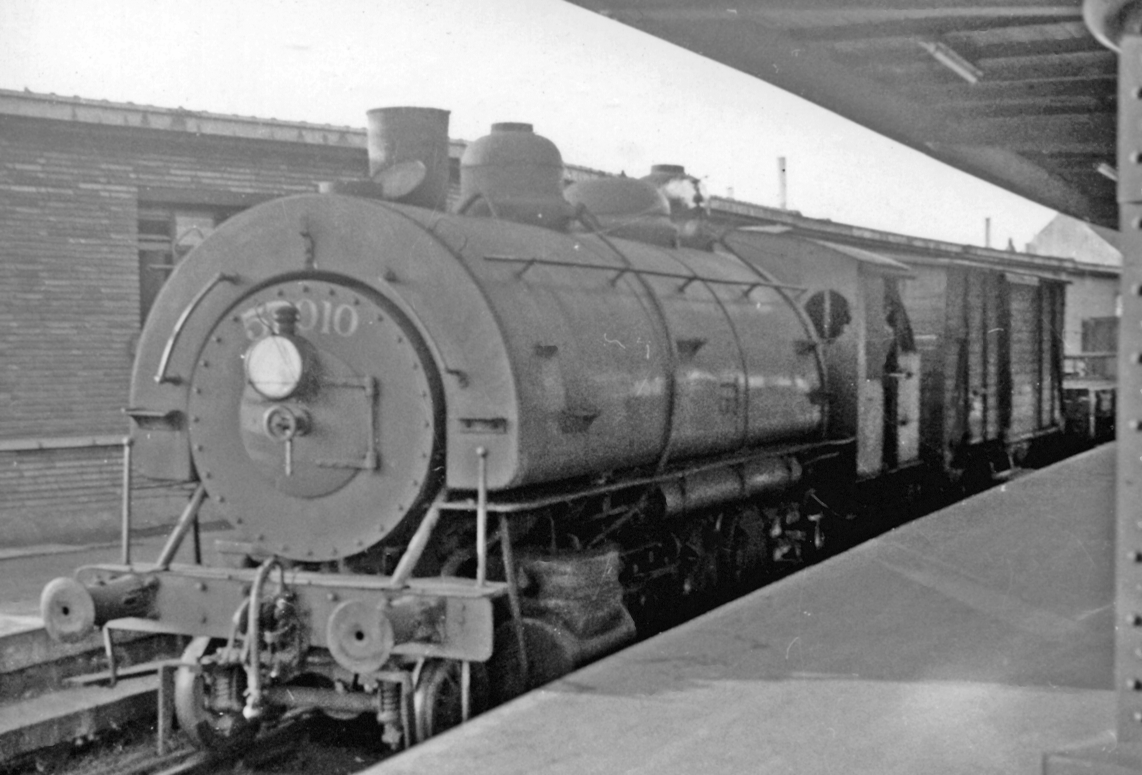 Class 57 2-6-2 Saddle Tank on pilot duty at Bruxelles Midi.